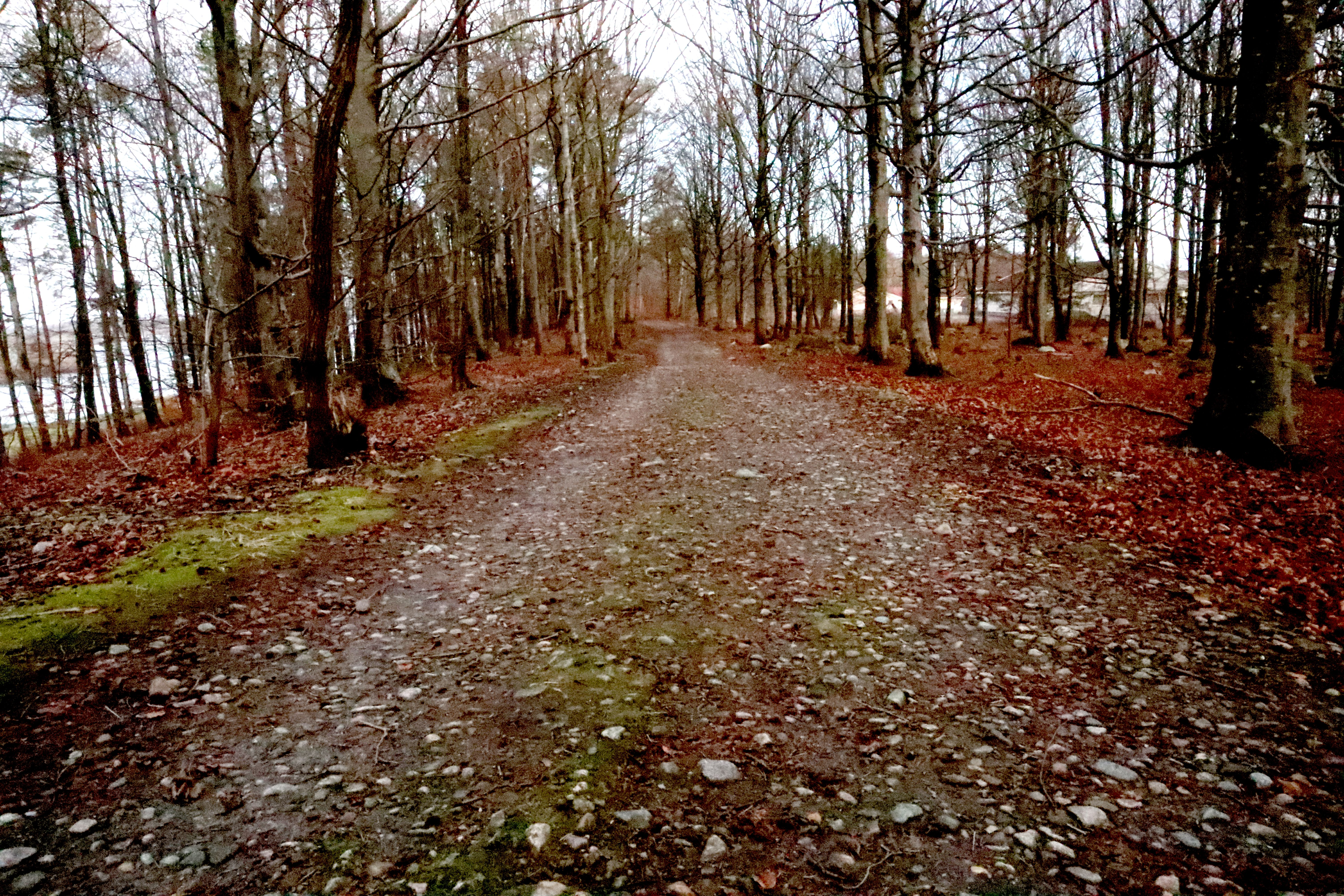 Road and trees, leaves on the ground